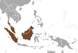 Banded Palm Civet (Hemigalus derbyanus) range